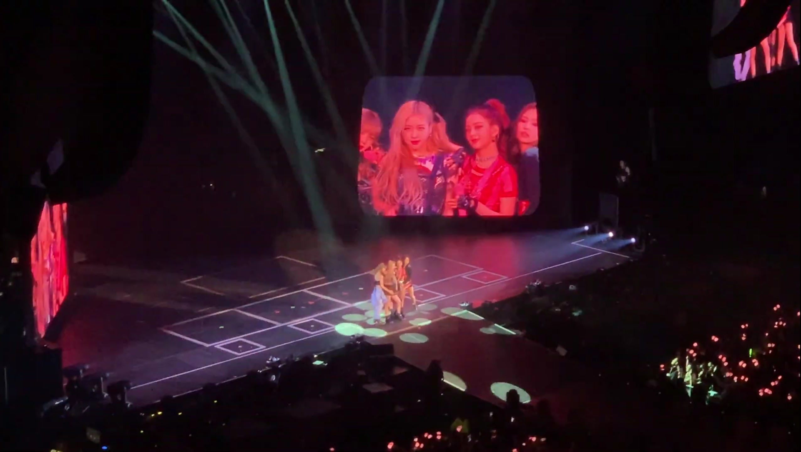 190427 Blackpink Toronto Concert